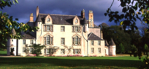 Leith Hall. Leith Hall, which is in the care of the National Trust for Scotland, was the home of the Leith-Hay family for nearly four centuries.